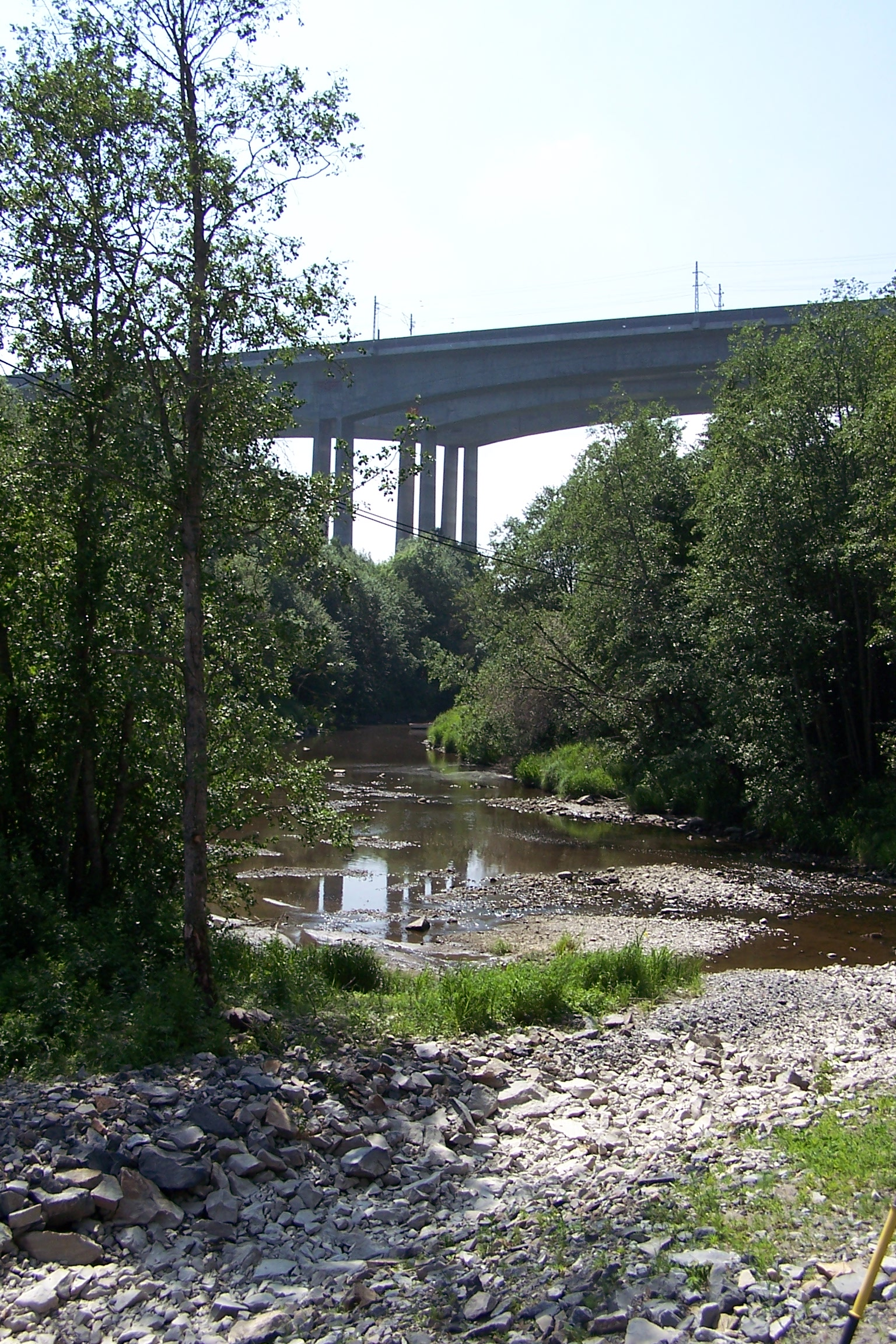 Hølen, new motorway and railroad bridges over River Såna